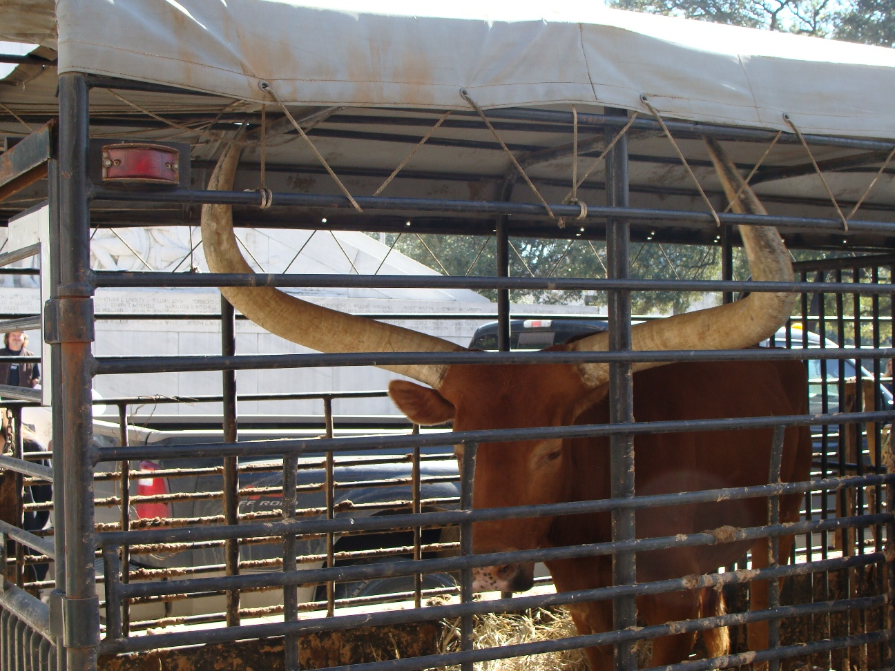 A Texas Longhorn, in San Antonio, Texas